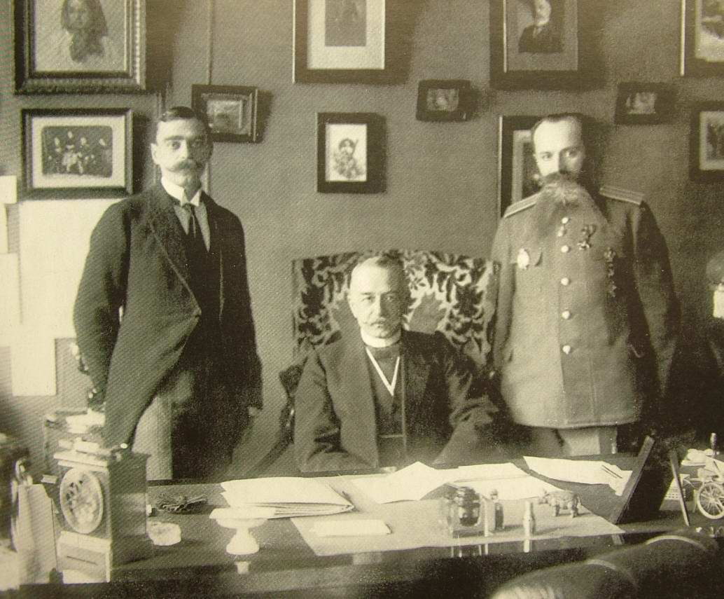 Ministr Alexandr Protopopov& Kabinet sept1916